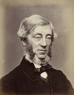 William Reginald Courtenay, 11th Earl of Devon, albumen print, 1870s by John Watkins, 3in. x 2 5/8in. (84 mm x 66 mm), National Portrait Gallery, London, NPG Ax21854